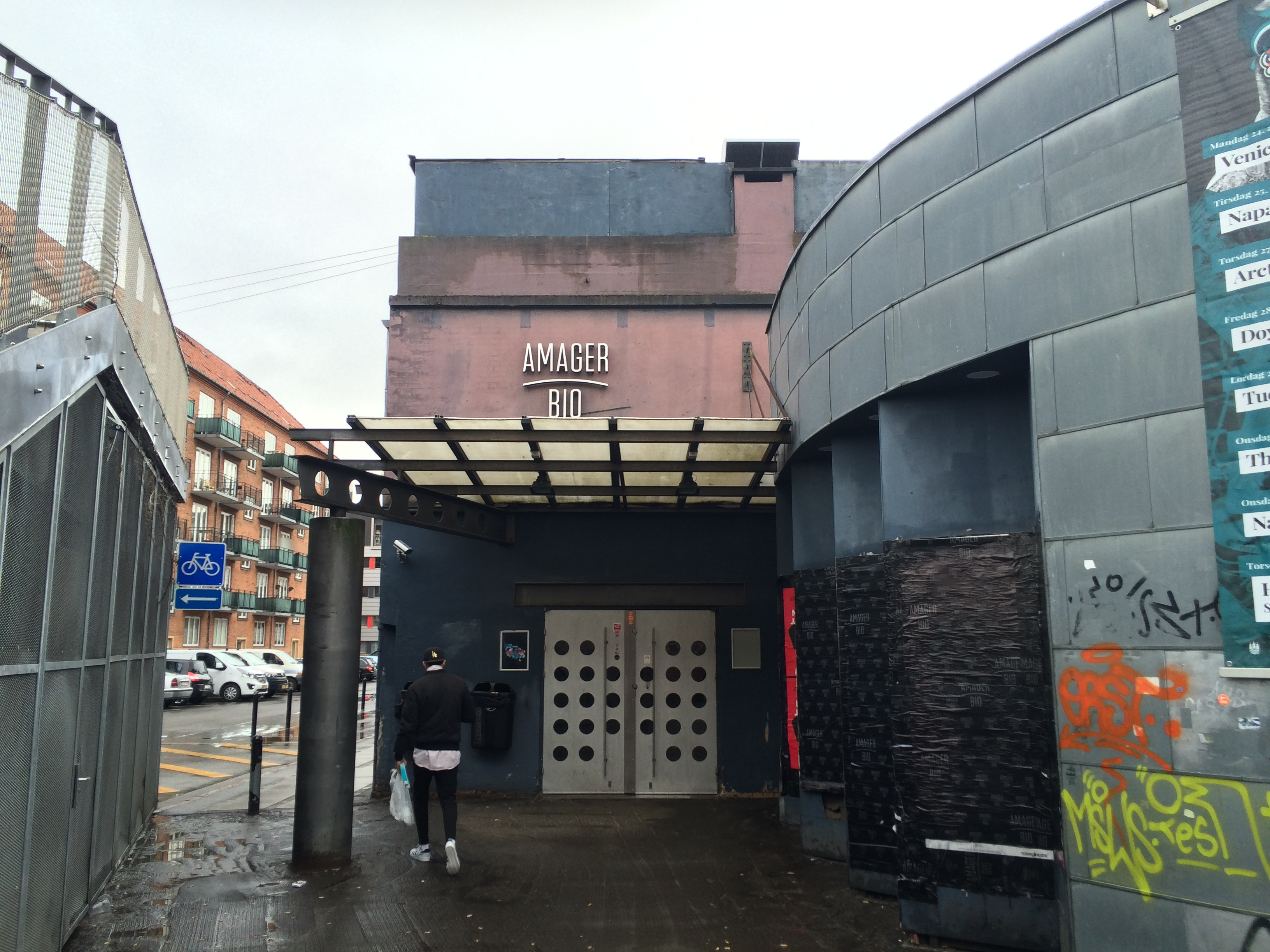 Entrance to the music venue Amager Bio in 2017